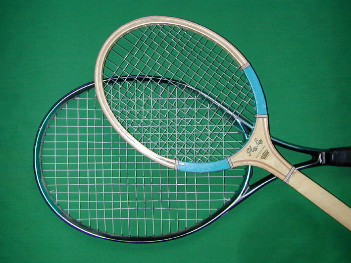 Photo of tennis rackets made of wood and carbon fibre reinforced plastics (CFRP) showing increase in racket head for the CFRP. Courtesy of Prof Claire Davis, School of Metallurgy and Materials, University of Birmingham.